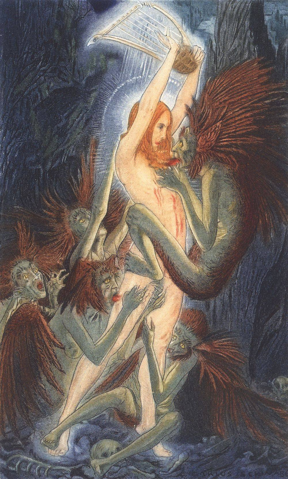 Altona (Germany)